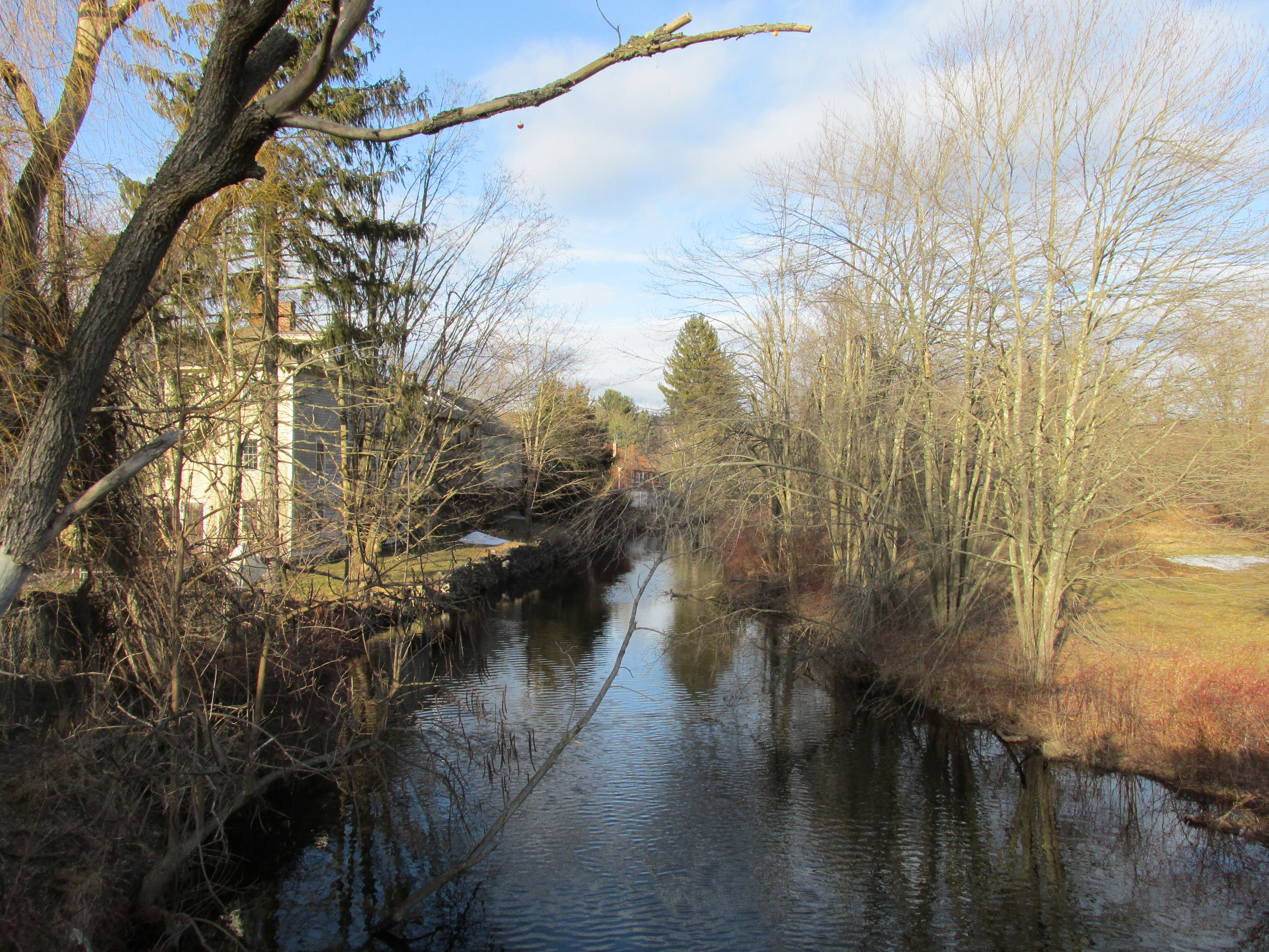 Scantic River looking upstream, Hampden Massachusetts